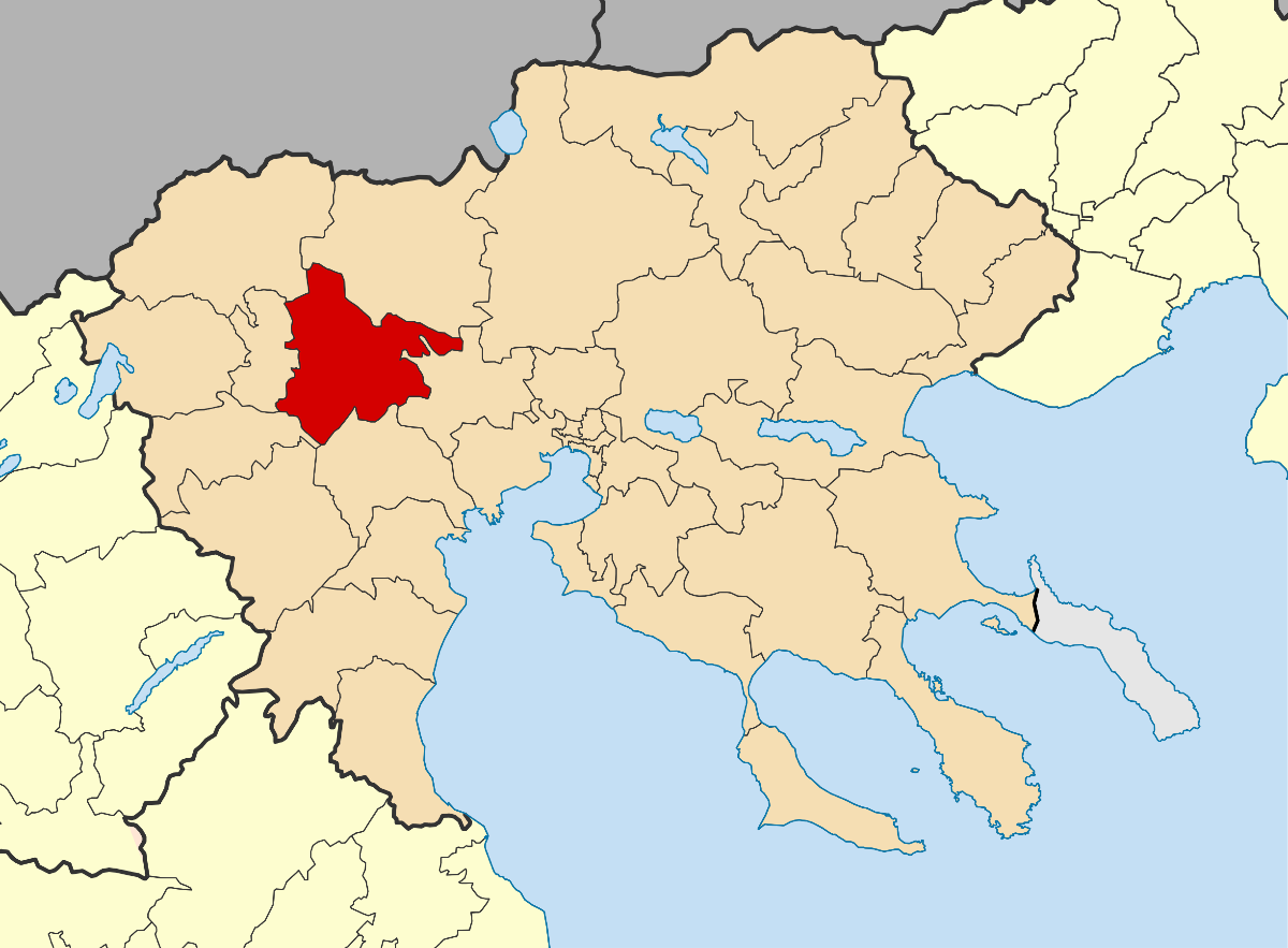 Locator map for Archea Pella municipality in Greek region Central Macedonia (2011)